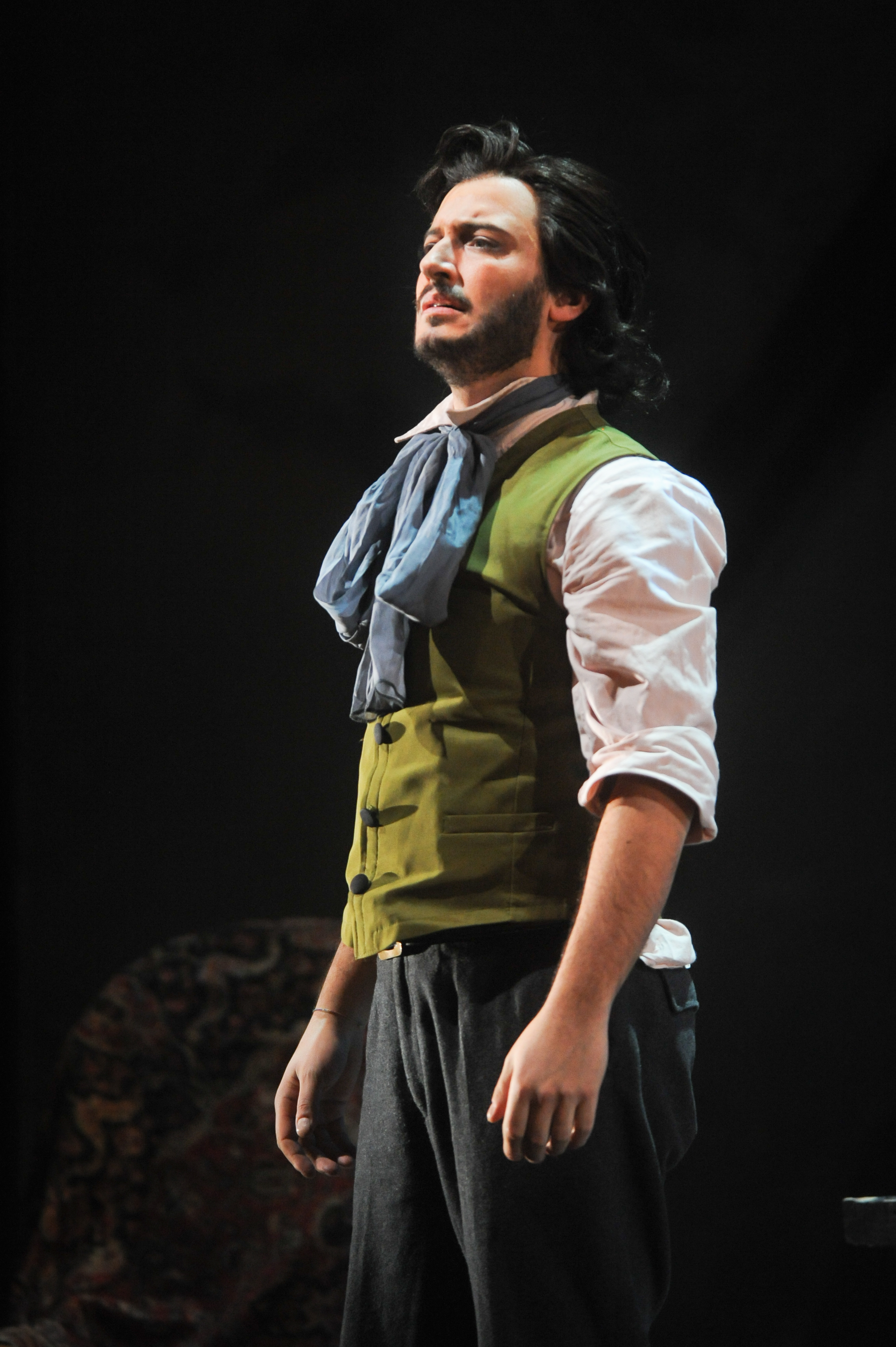 The tenor Marco Frusoni in the role of Rodolfo in the Opera La bohème by Giacomo Puccini